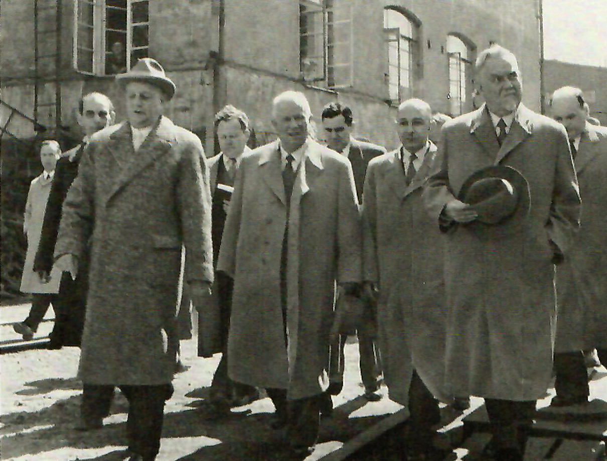 Wilhelm Wahlforss presenting Wärtsilä Hietalahti Shipyard to Soviet delegation led by Nikita Khrushchev and Nikolai Bulganin in 1957.